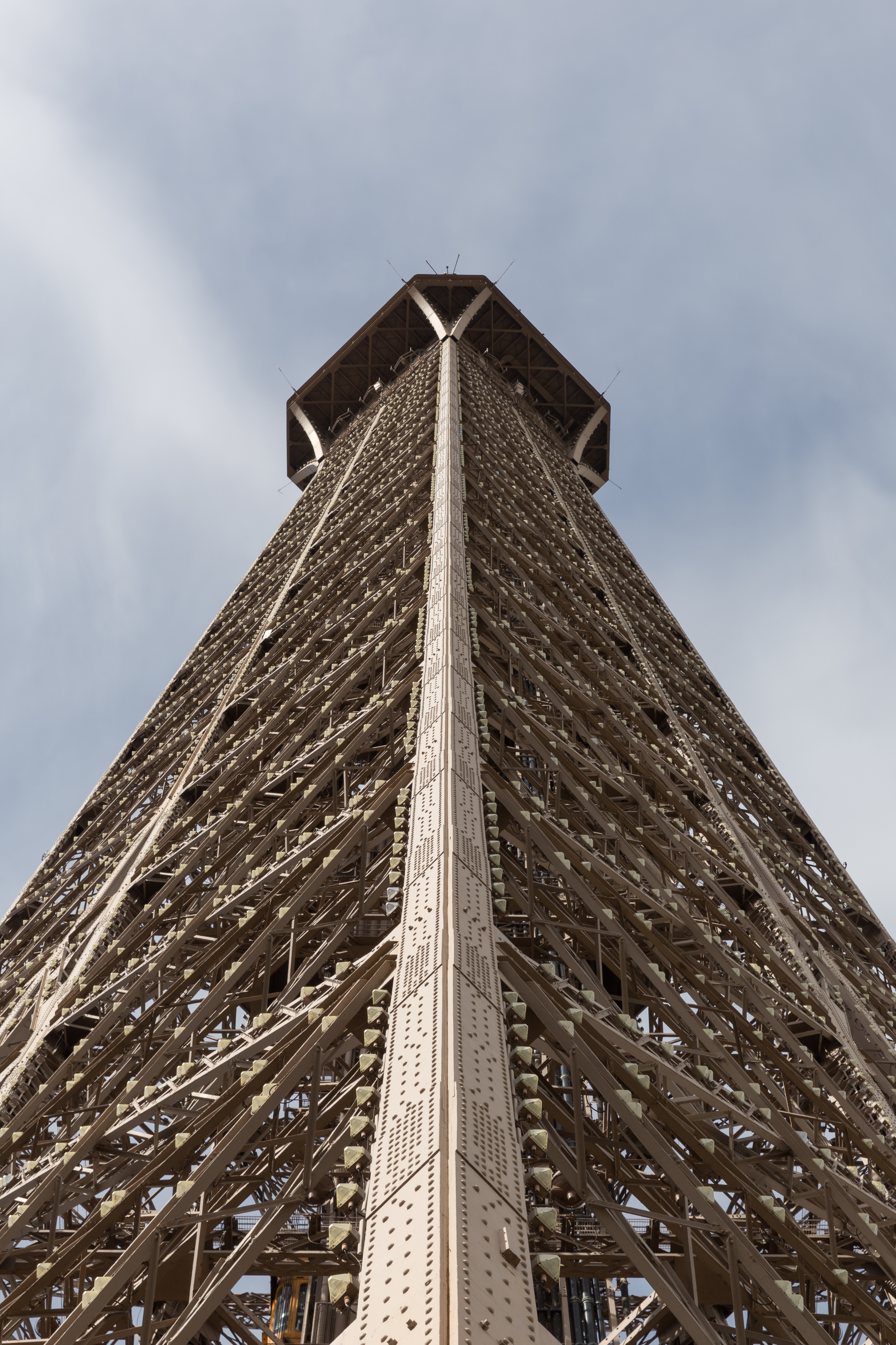 Top of the Eiffel tower from its second floor, in Paris.